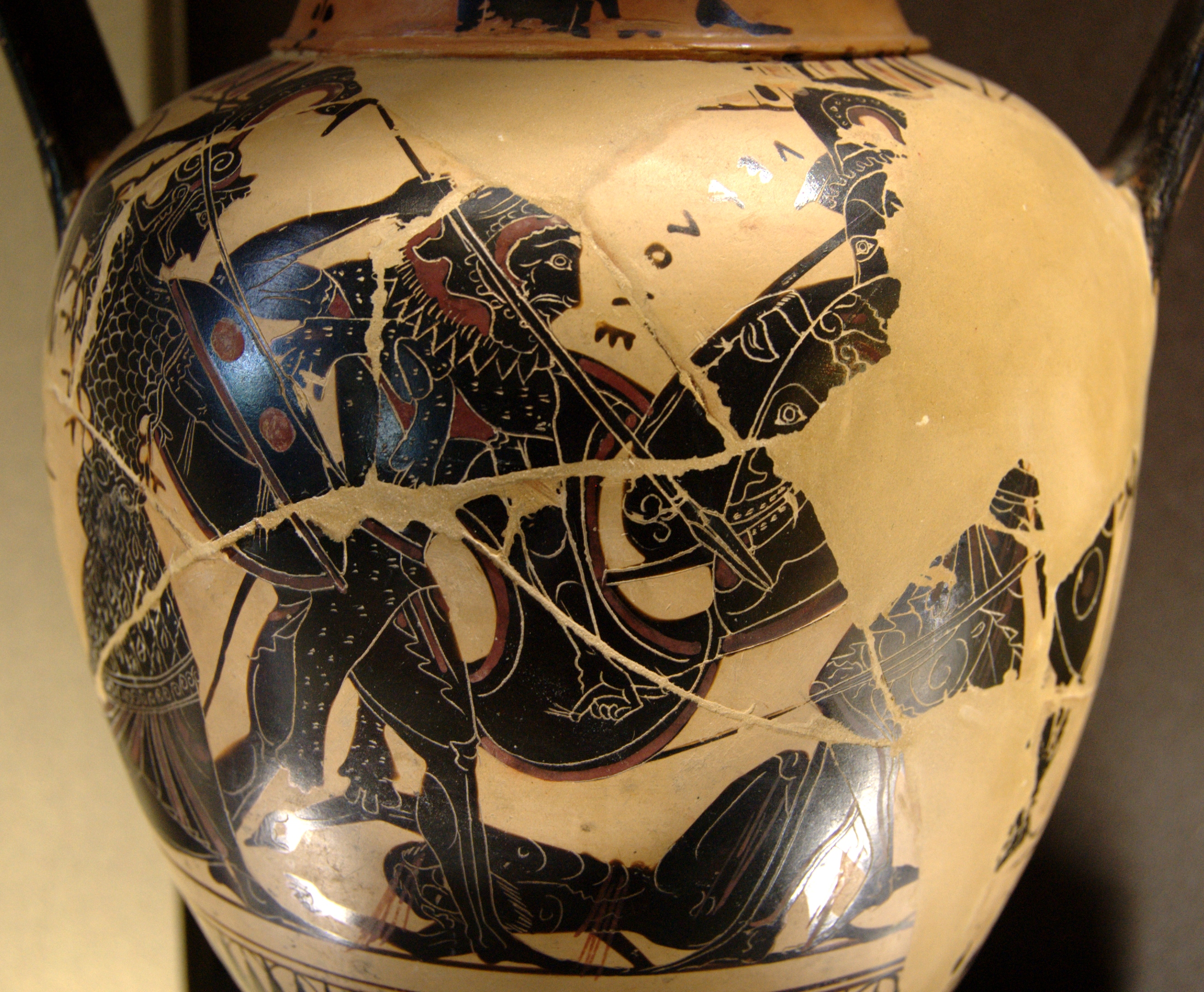 Heracles fighting Geryon. Detail of the belly of the side A from an Attic black-figured neck-amphora, ca. 520–510 BC.